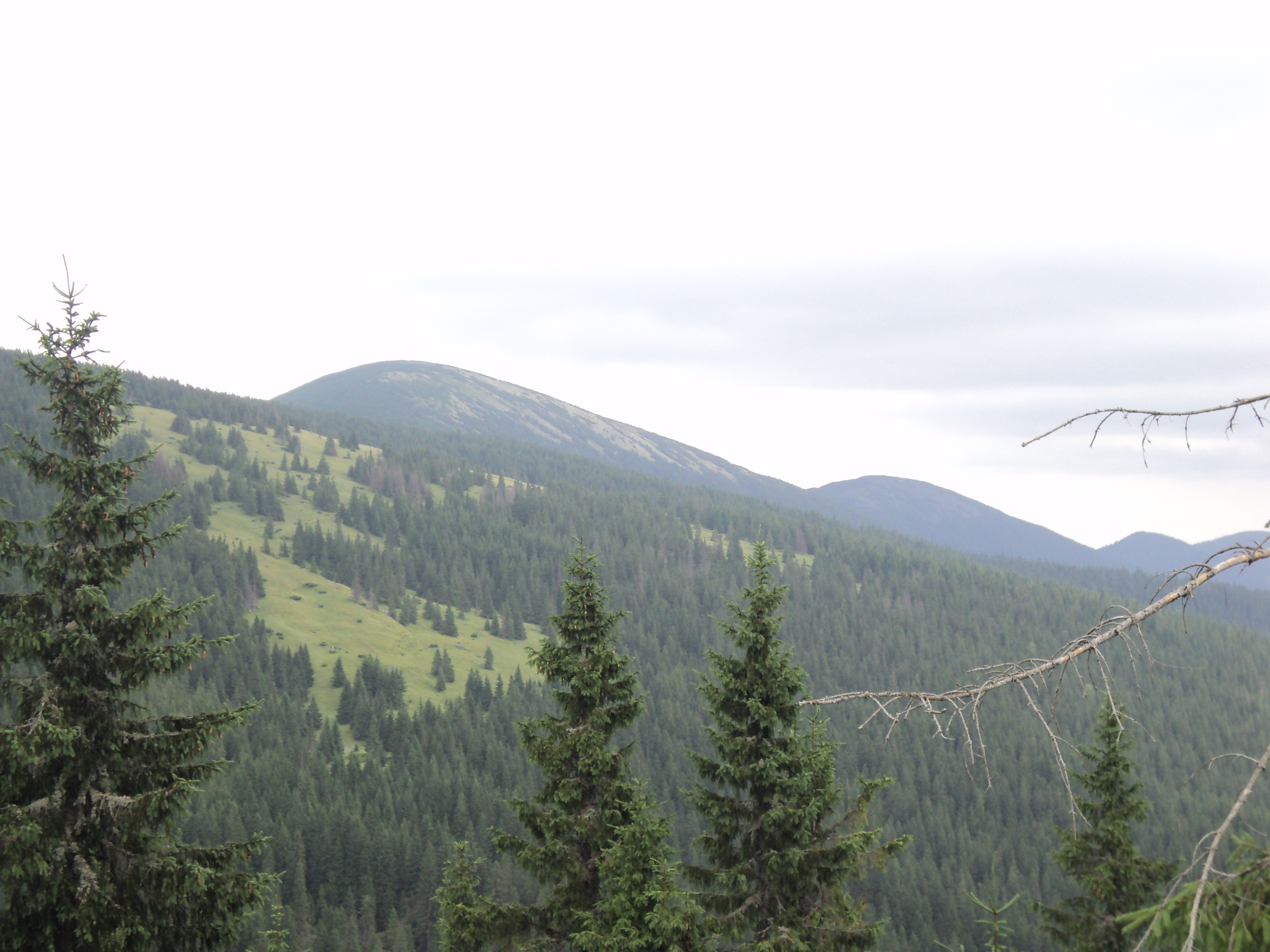 Negrova-Korotkan